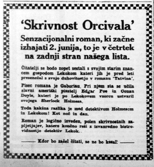 Oglas za roman Skrivnost Orcivala v Glasu naroda